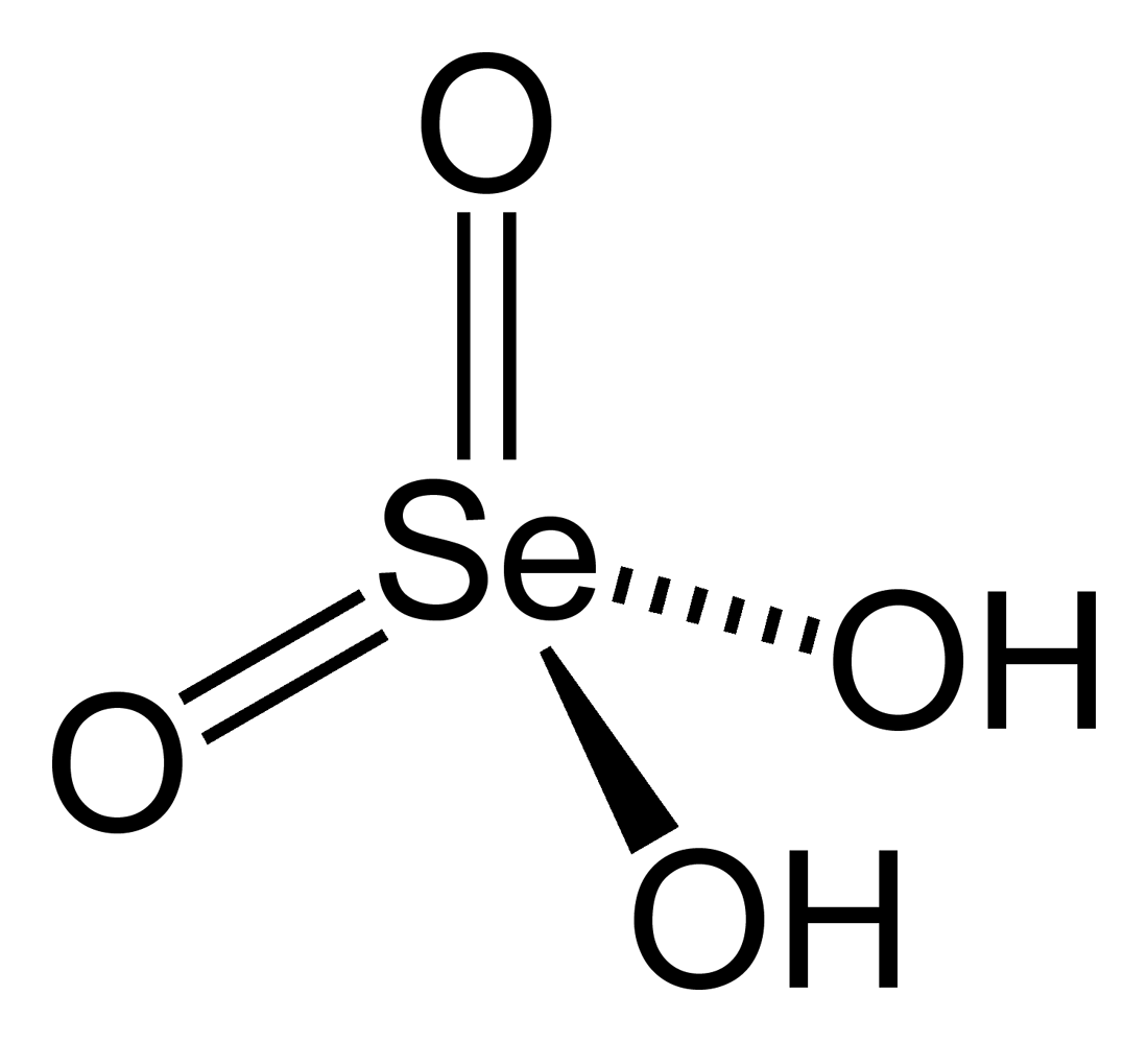 Structural formula of the selenic acid molecule